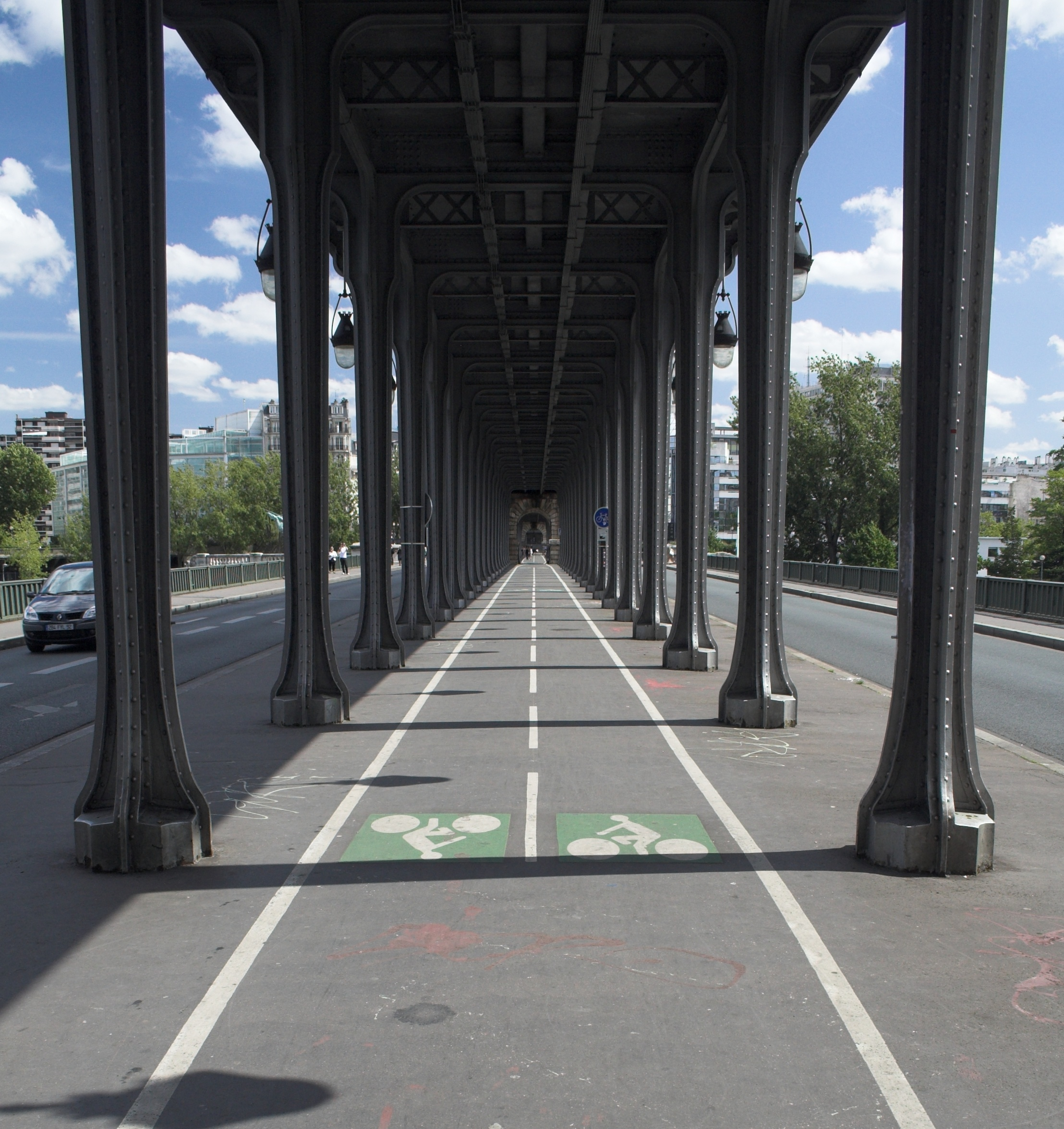 The interior view of bicycle path under the metro viaduct, Pont de Bir-Hakeim, Paris, France